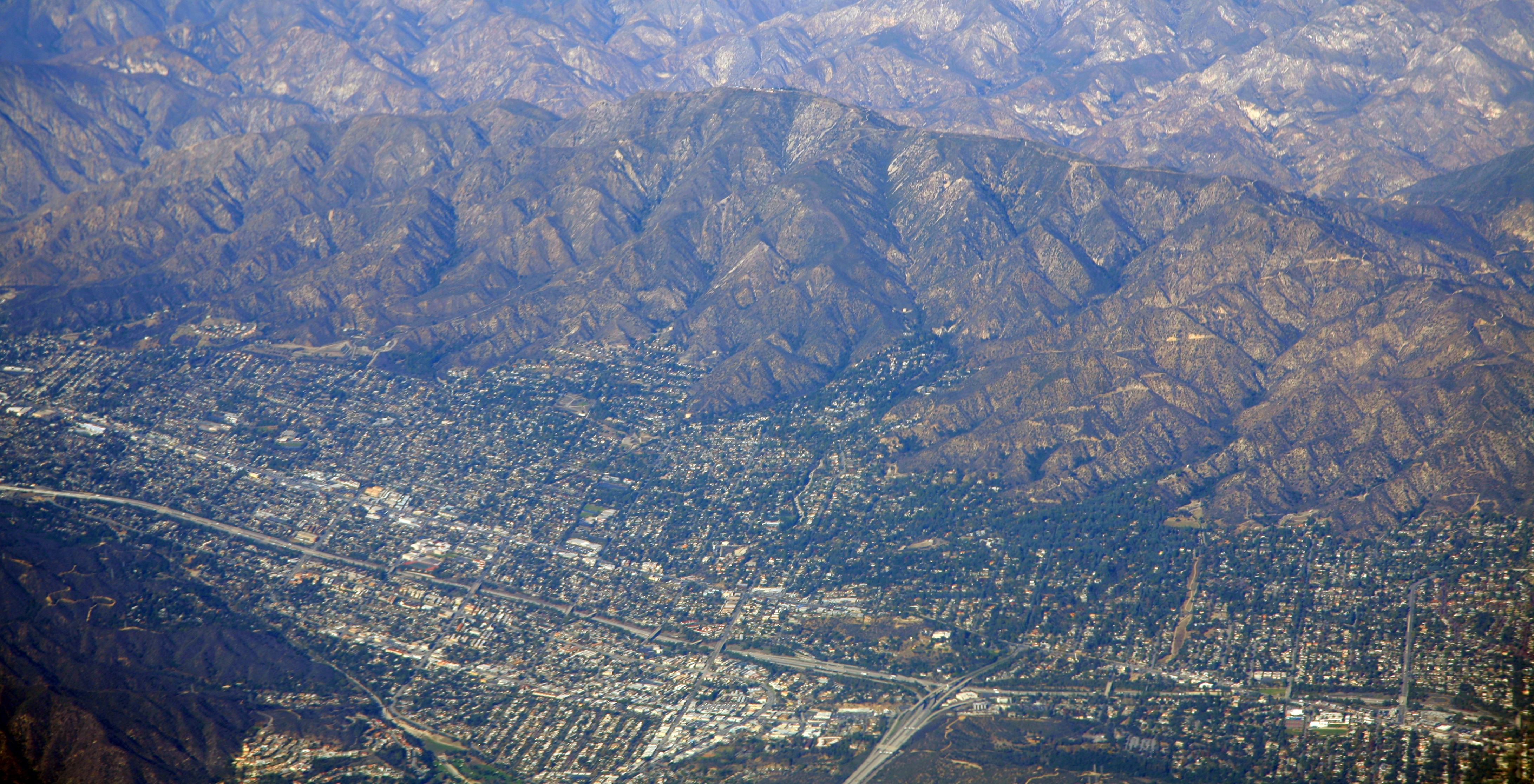 Mt. Lukens overlooking La Crecenta-Montrose, the 210 Freeway, and the Verdugo Mountains and Verdugo Valley — Los Angeles County, California.